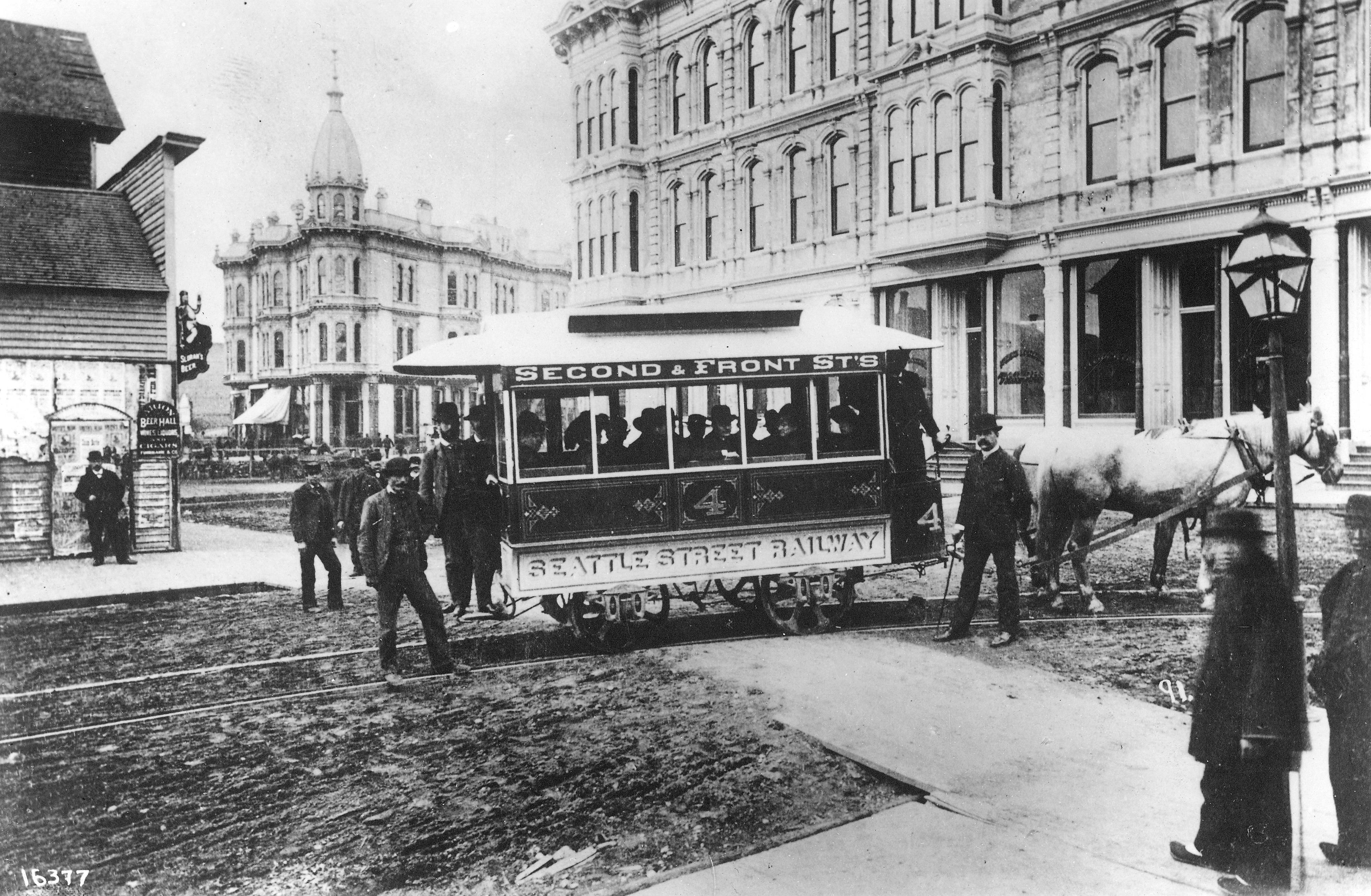 Original photograph by Theodore Peiser [6]. F.H. Osgoode (manager and chief owner) standing near horses, E.B. Downing on back steps. George Washington (black man) was the driver. Occidental Hotel (James St. at Yesler Way) and the Yesler Building (Yesler Way at 1st Ave.) in background. See also PH Coll 282.57 Subjects (LCTGM): Horse railroads--Washington (State)--Seattle; Buildings--Washington (State)--Seattle Subjects (LCSH): Seattle Street Railway ; Leary, John ; Osgoode, F.H. ; Downing, E.B. ; Washington, George ; Yesler Building